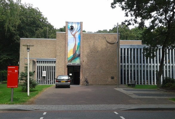 Student's Church of the Radboud University, Erasmuslaan 9, Nijmegen.